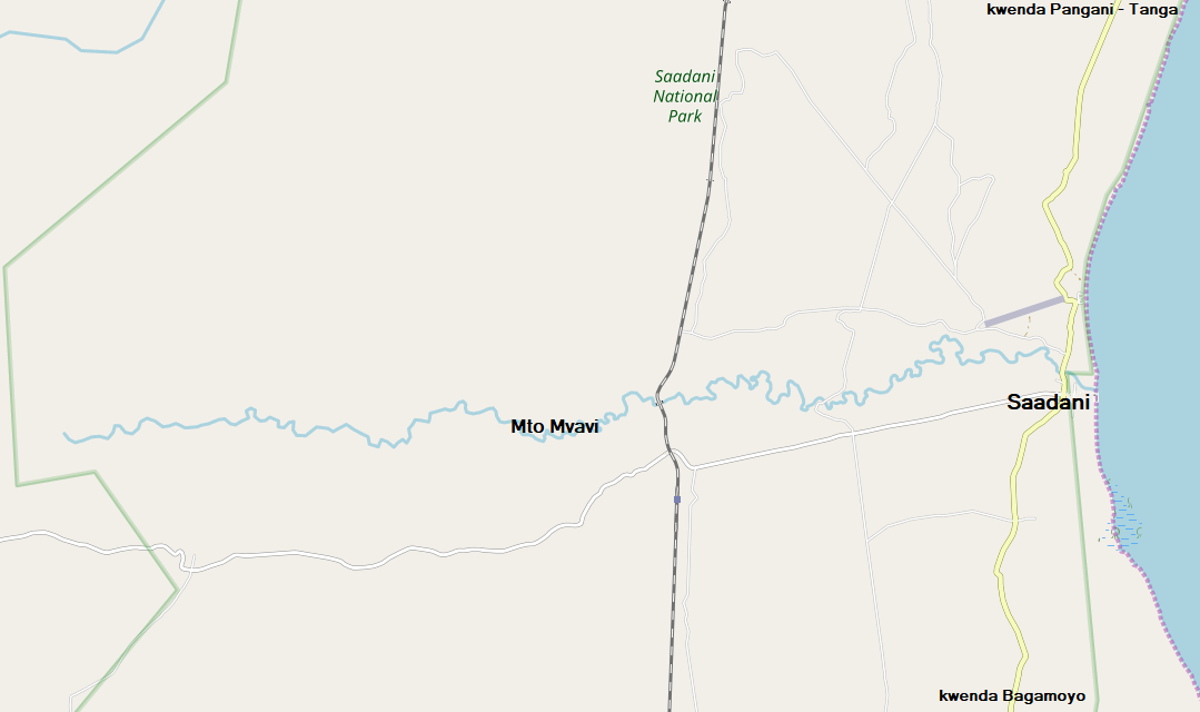 Map of Mvavi / Mvave River and Saadani in Tanzania, Coast Region, labelled Swahili